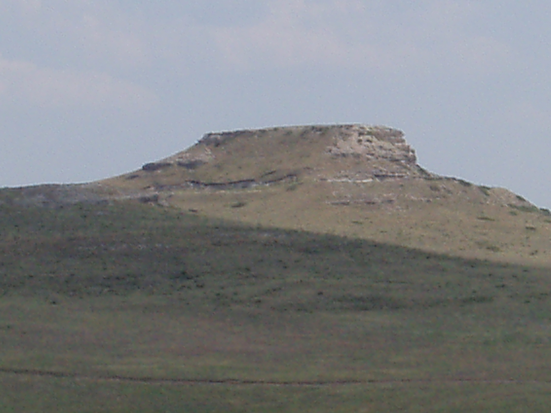 Agate Fossil Beds National Monument near Harrison, Nebraska